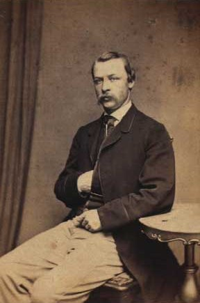 Peter Gottfred Ramm (1834-1917), Danish army officer, politician, and tramway manager